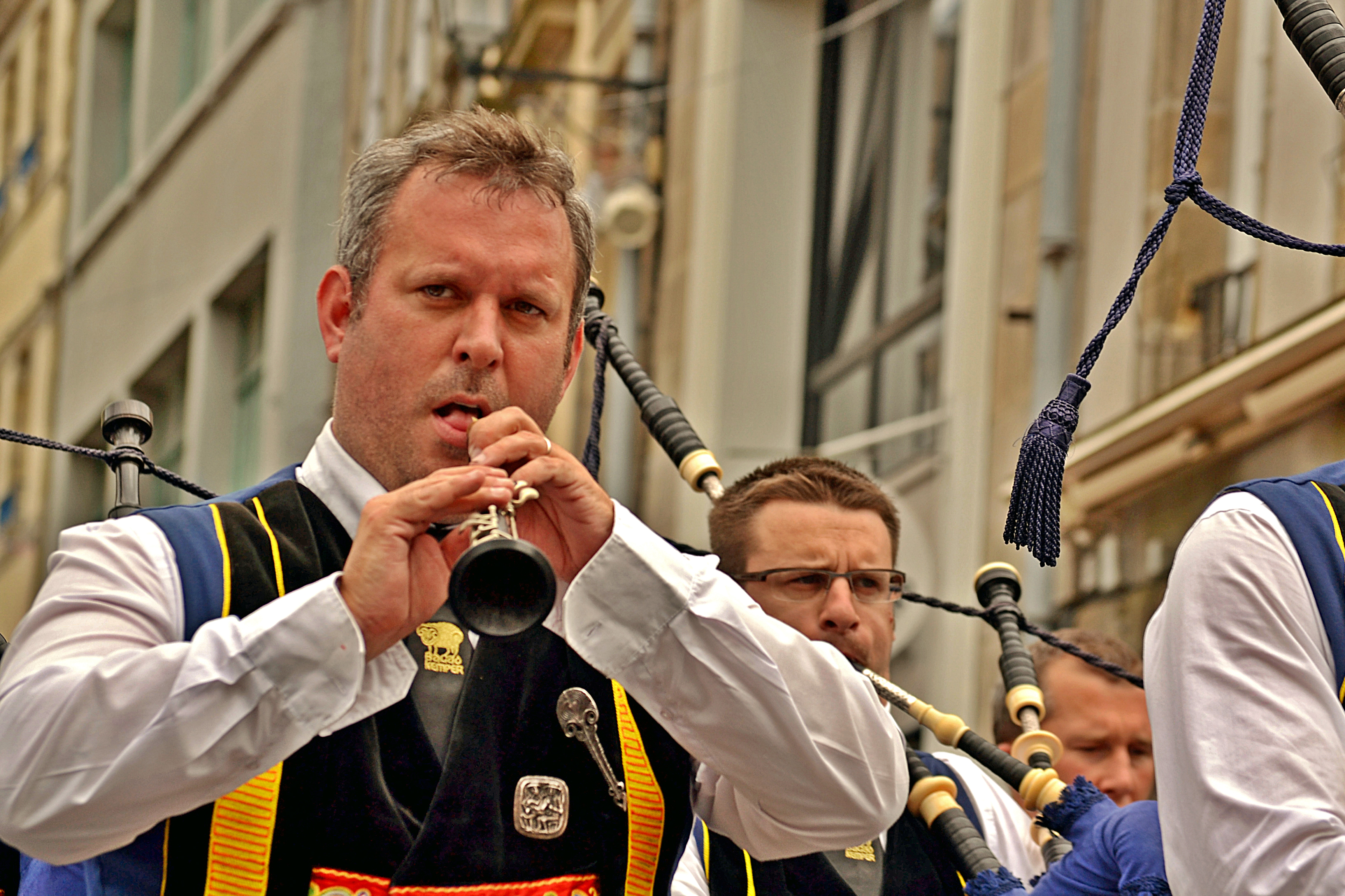 Parade of Breton folk groups during the 2015 Cornouaille festival in the streets of Quimper.